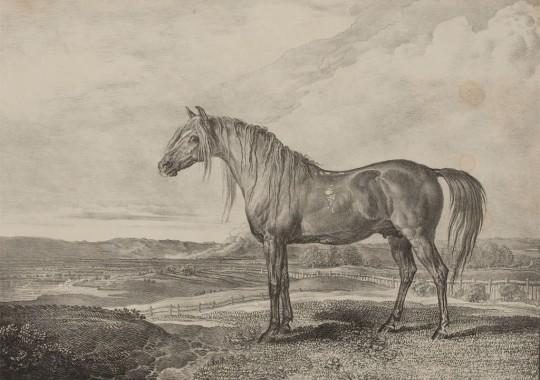 'Copenhagen The Horse rode by the Duke of Wellington at the Battle of Waterloo, was bred by General Grosvenor', 1824 (c) Lithograph, by and after James Ward RA, 1824 (c), printed by C Hullmandel and published by R Ackermann 1825.Location: National Army Museum, Study collection